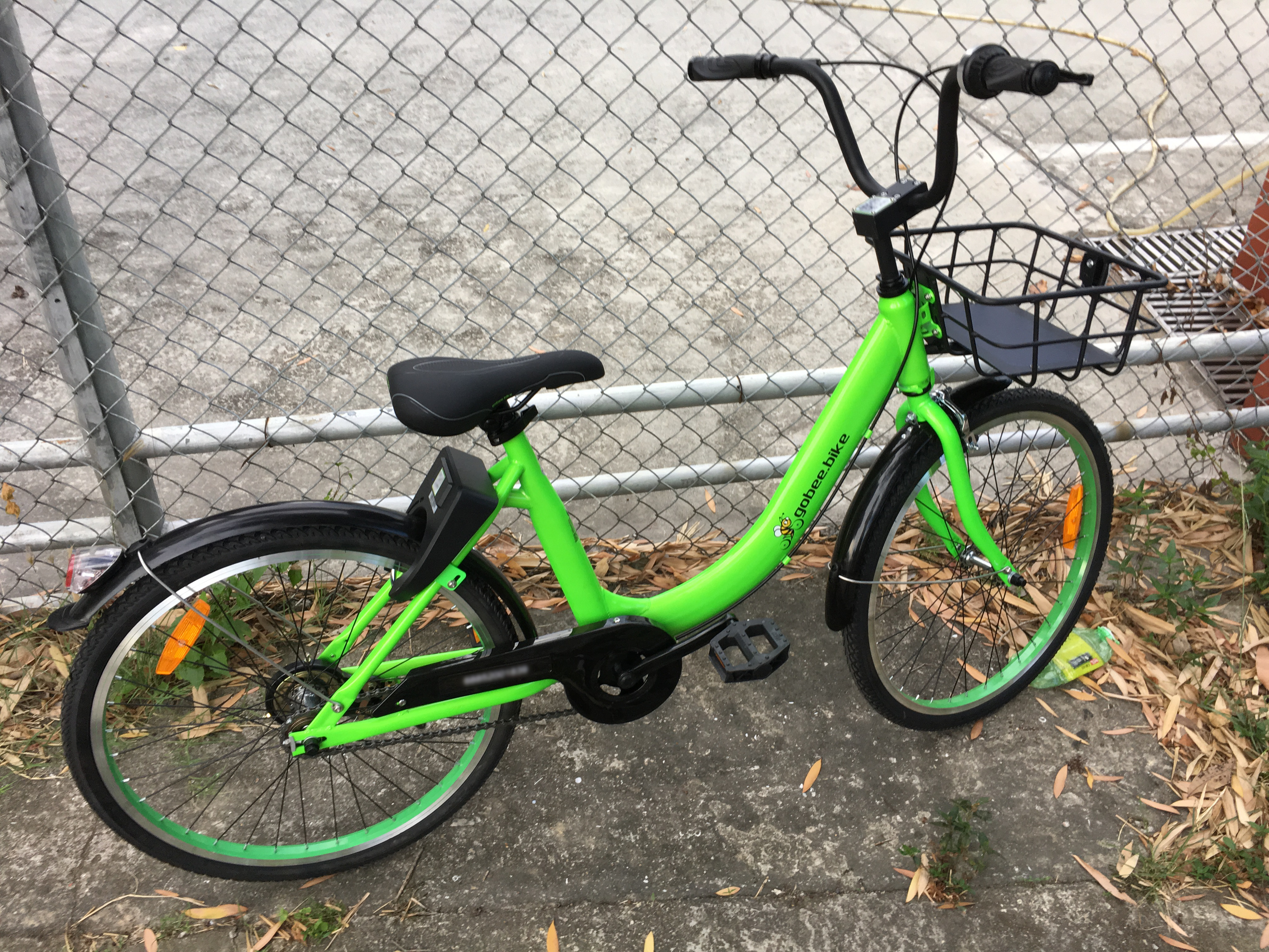 The photo shows a bike owned by gobee.bike, the largest shared bike operator by fleet in Hong Kong, showcasing the bike's solar panel in the basket, locking mechanism at the back wheel and rear light that turns on automatically at dusk. The bike identifiers were masked.